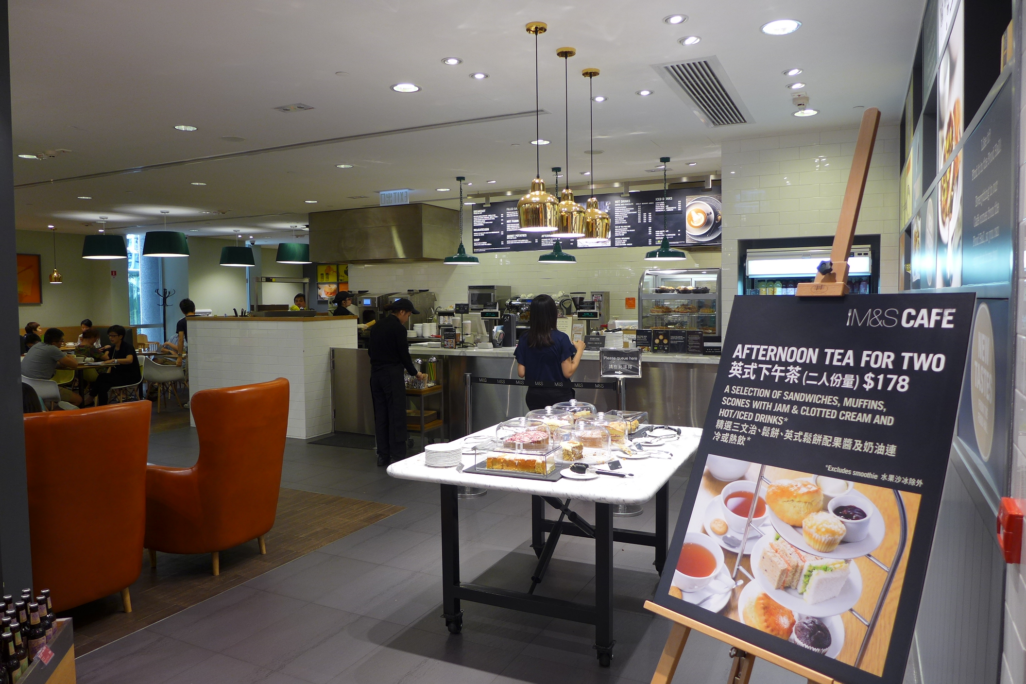 M&S Cafe in Cityplaza